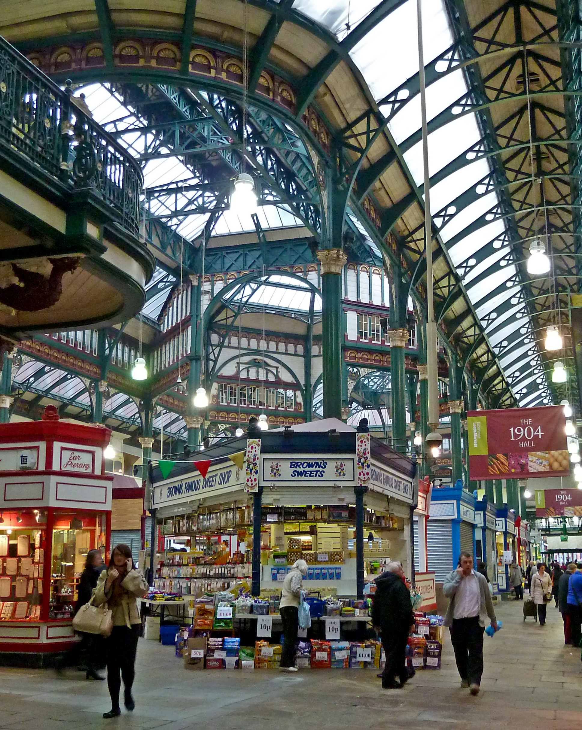 The 1904 Hall of the Kirkgate Market in Leeds, West Yorkshire. Taken by Flickr user:Tim Green aka atouch on Monday the 27th of February 2012)